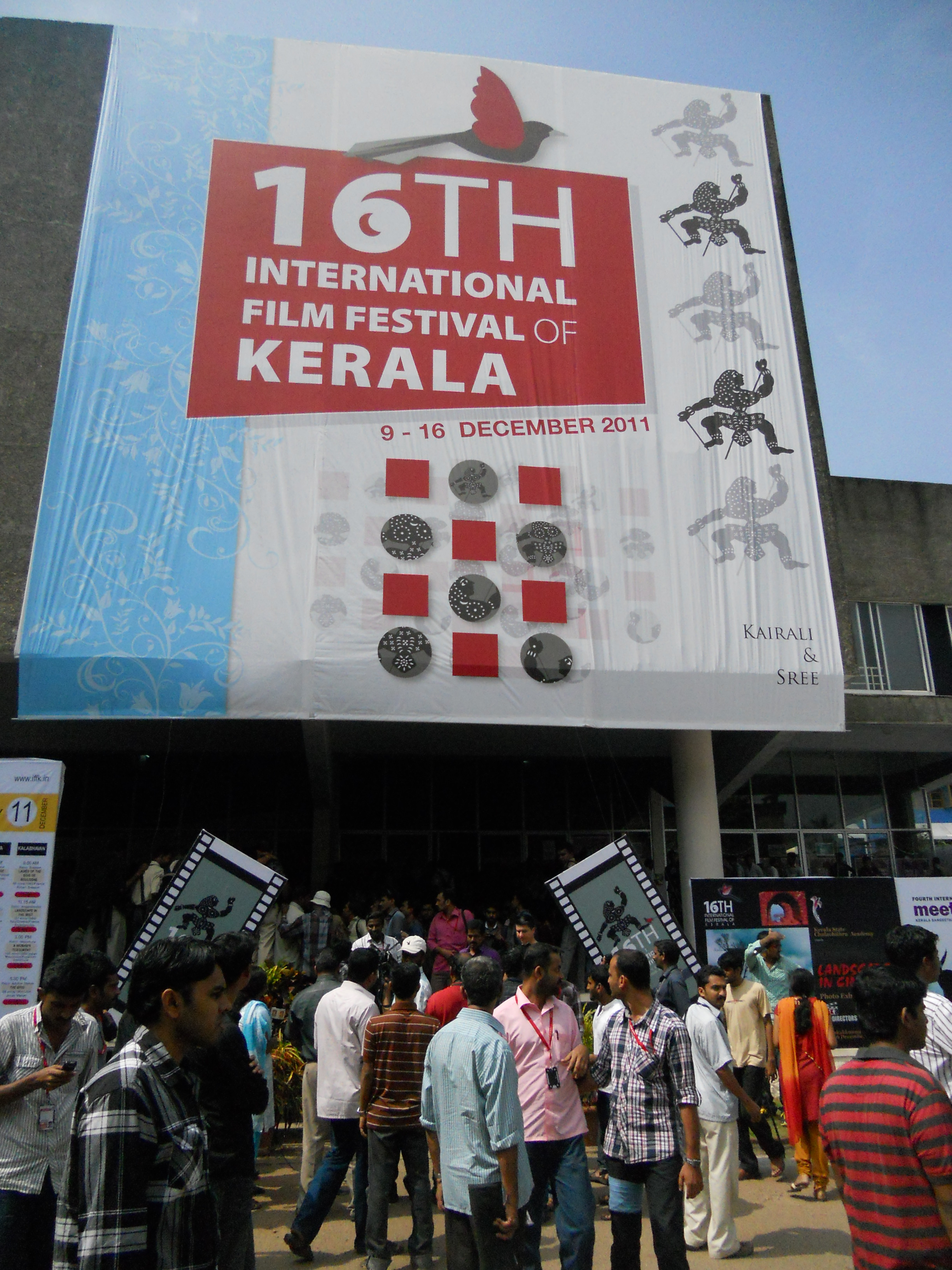 International film festival of Kerala, Iffk 2011 at Kairali theatre, Trivandrum